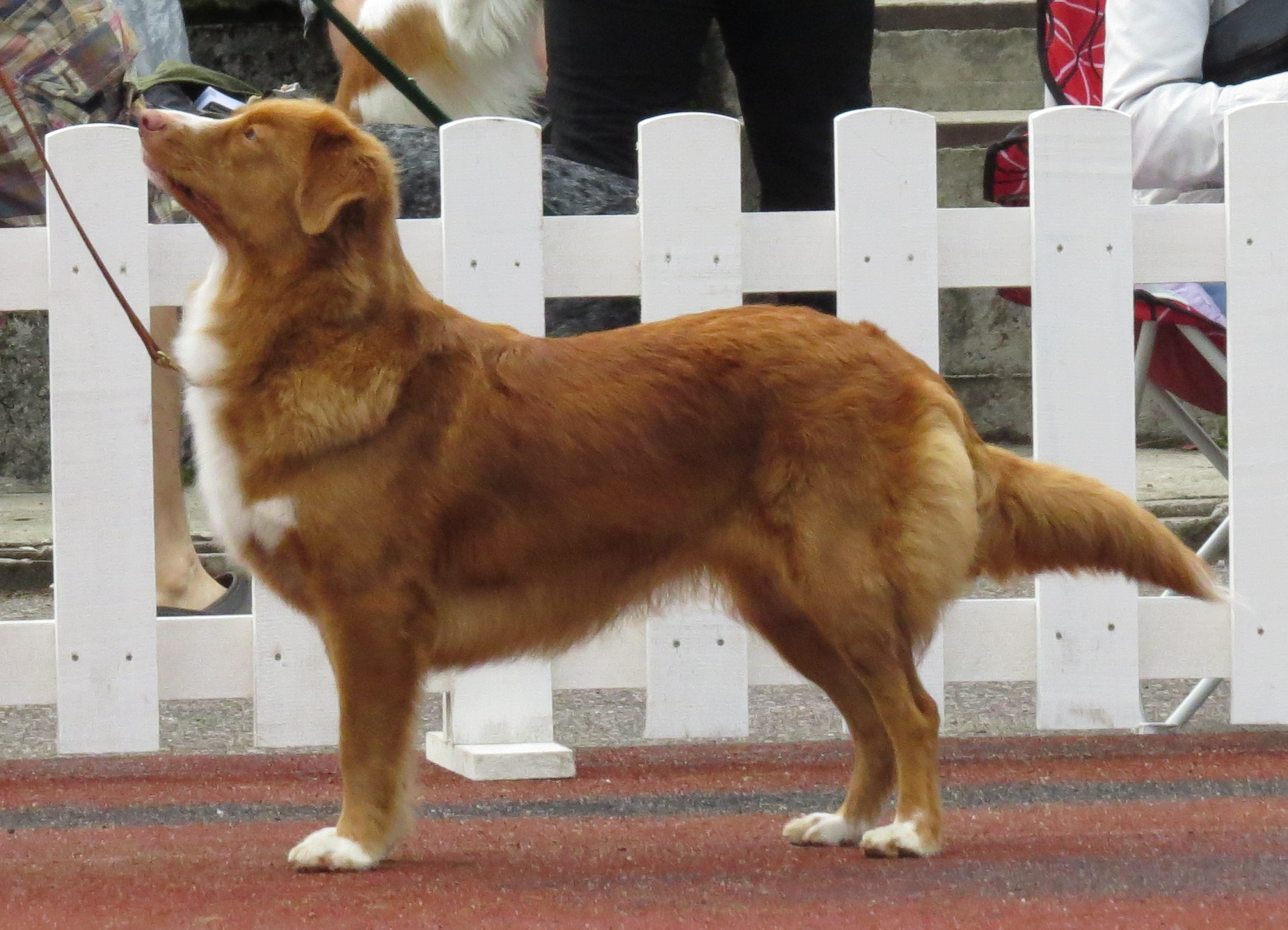 Duck Tolling Retriever in Tallinn duo CACIB, 17-18 Aug 2013